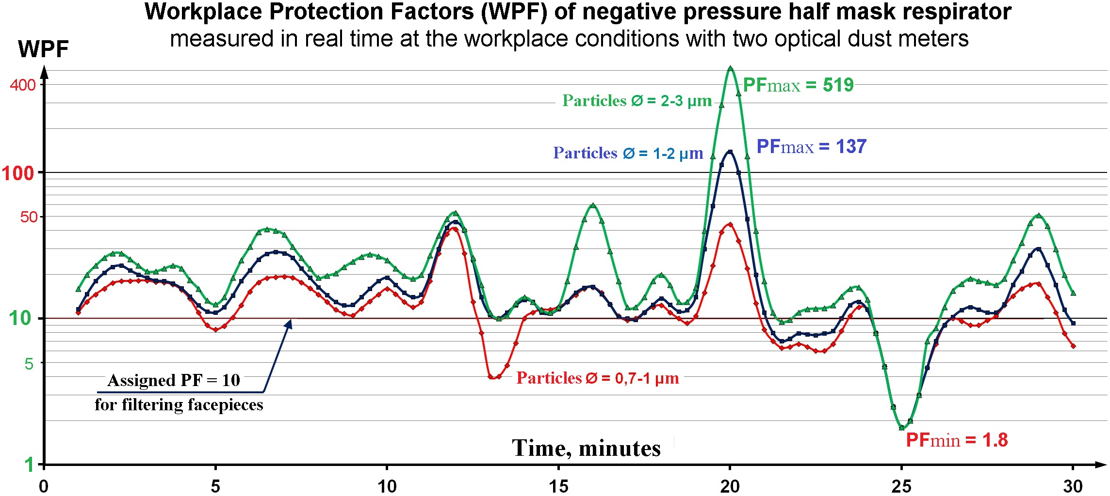 Workplace protection factors of negative pressure half-mask respirator (filtering facepiece), measured in real time during work (harvesting using combine). The counting concentrations of dust particles under the mask and the outside (in the breathing zone) was measured with two optical dust meters for the different particle size ranges separately. A source (The Annals of Occupational Hygiene (2005) Vol. 49(3) pp. 245-257)